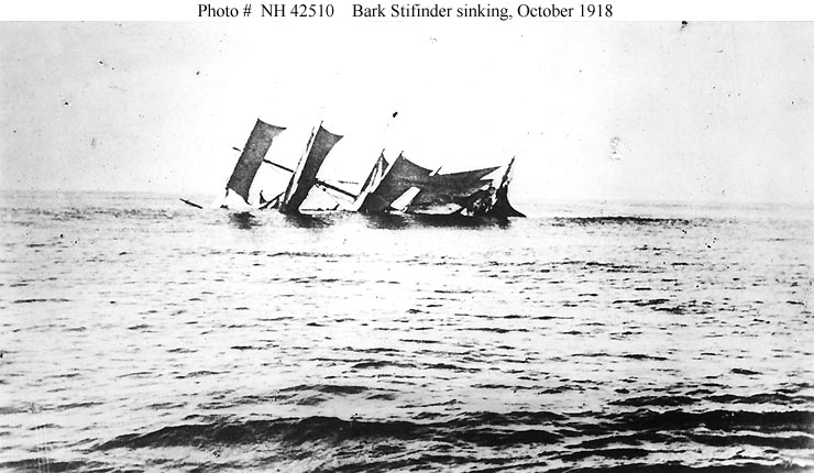 Stifinder (Norwegian Bark, 1894) Sinking with her sails still set, in the western mid-Atlantic, 13 October 1918. She had been captured and scuttled by the German submarine U-152.